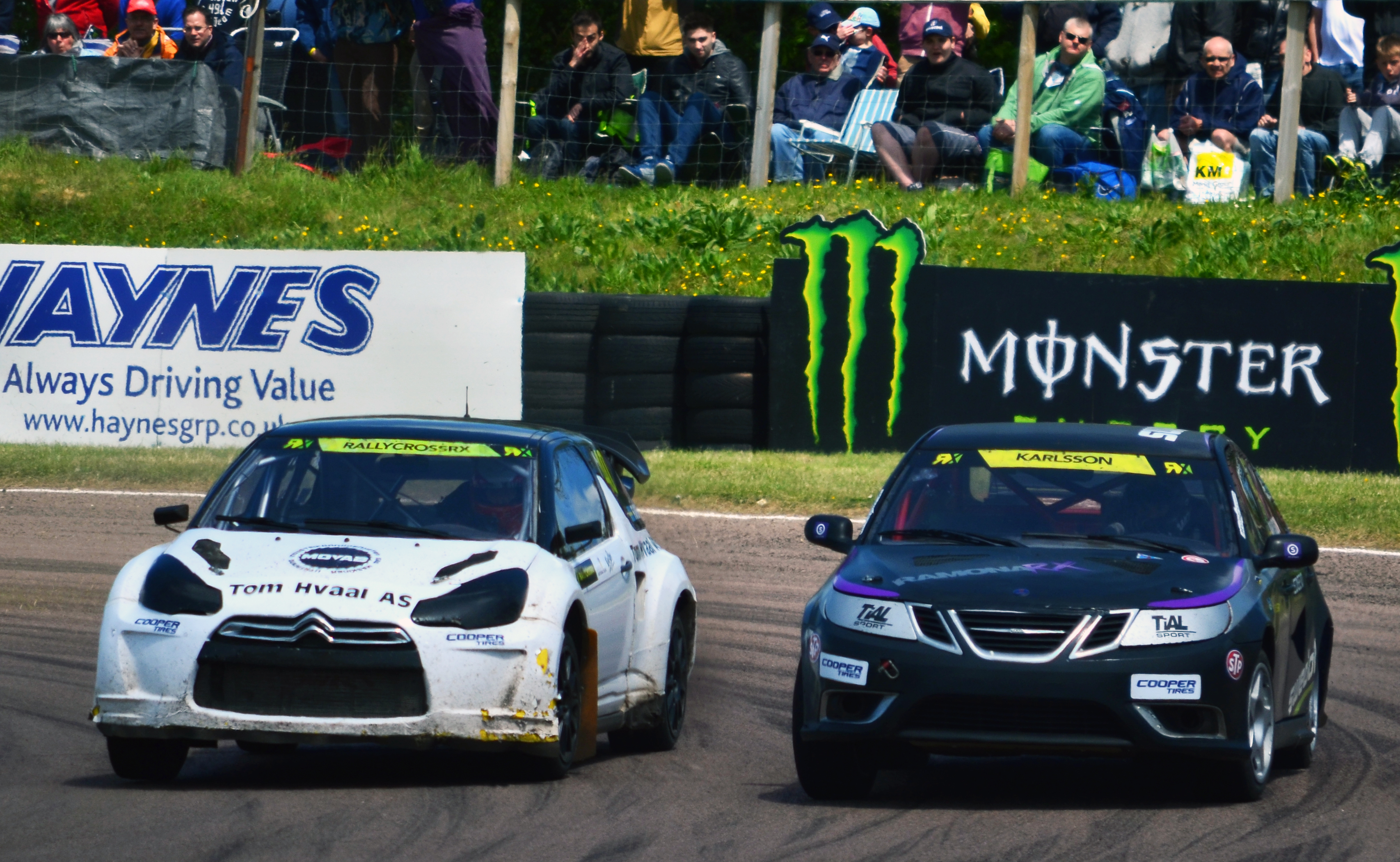 Swedish rallycross drivers Ramona Karlsson (right) and Eric Färén at Lydden Hill. Round 2 of the 2014 FIA World Rallycross Championship.